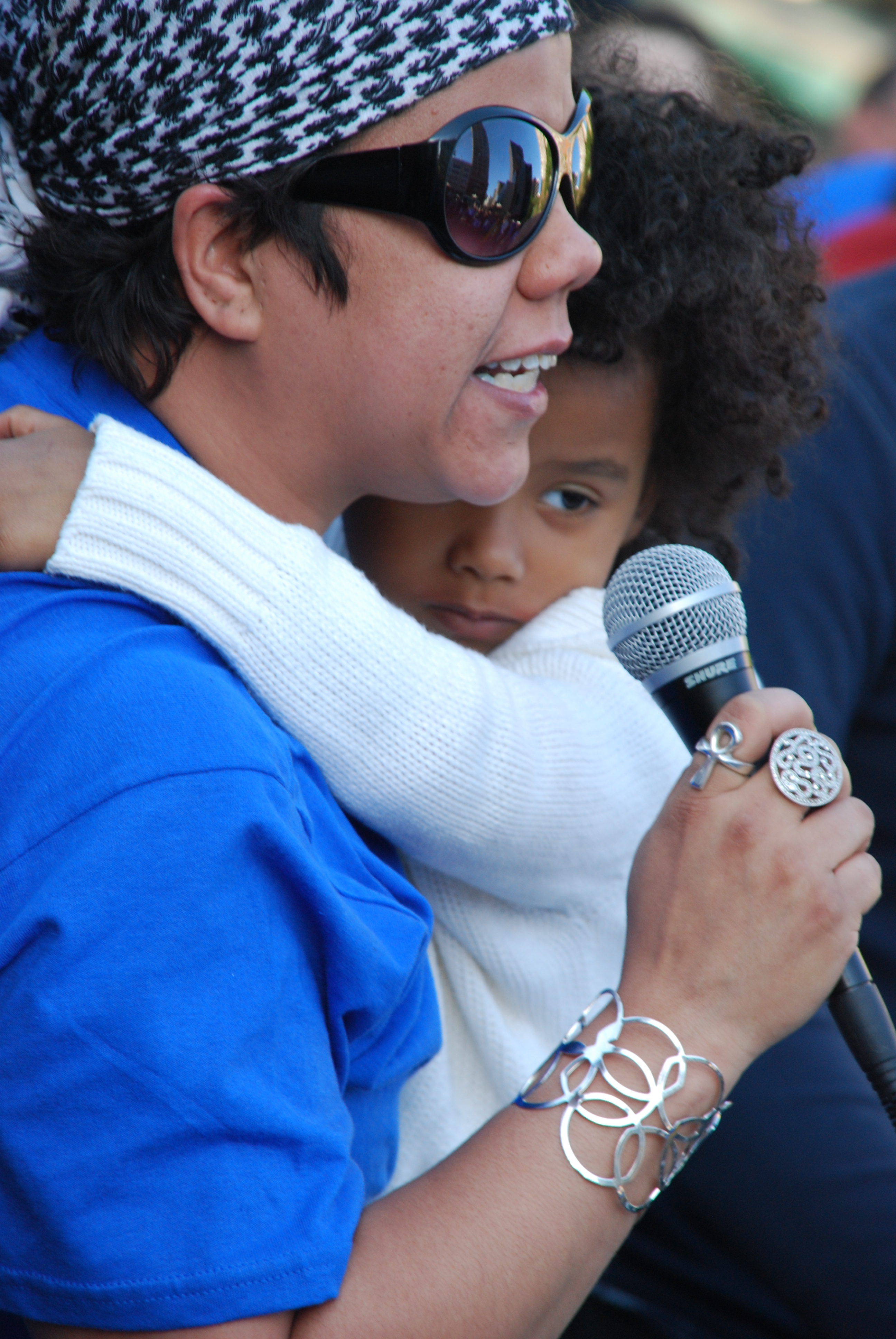 Rosa Clemente speaking at a rally for death row prisoner Troy Davis, New York City, 2009.